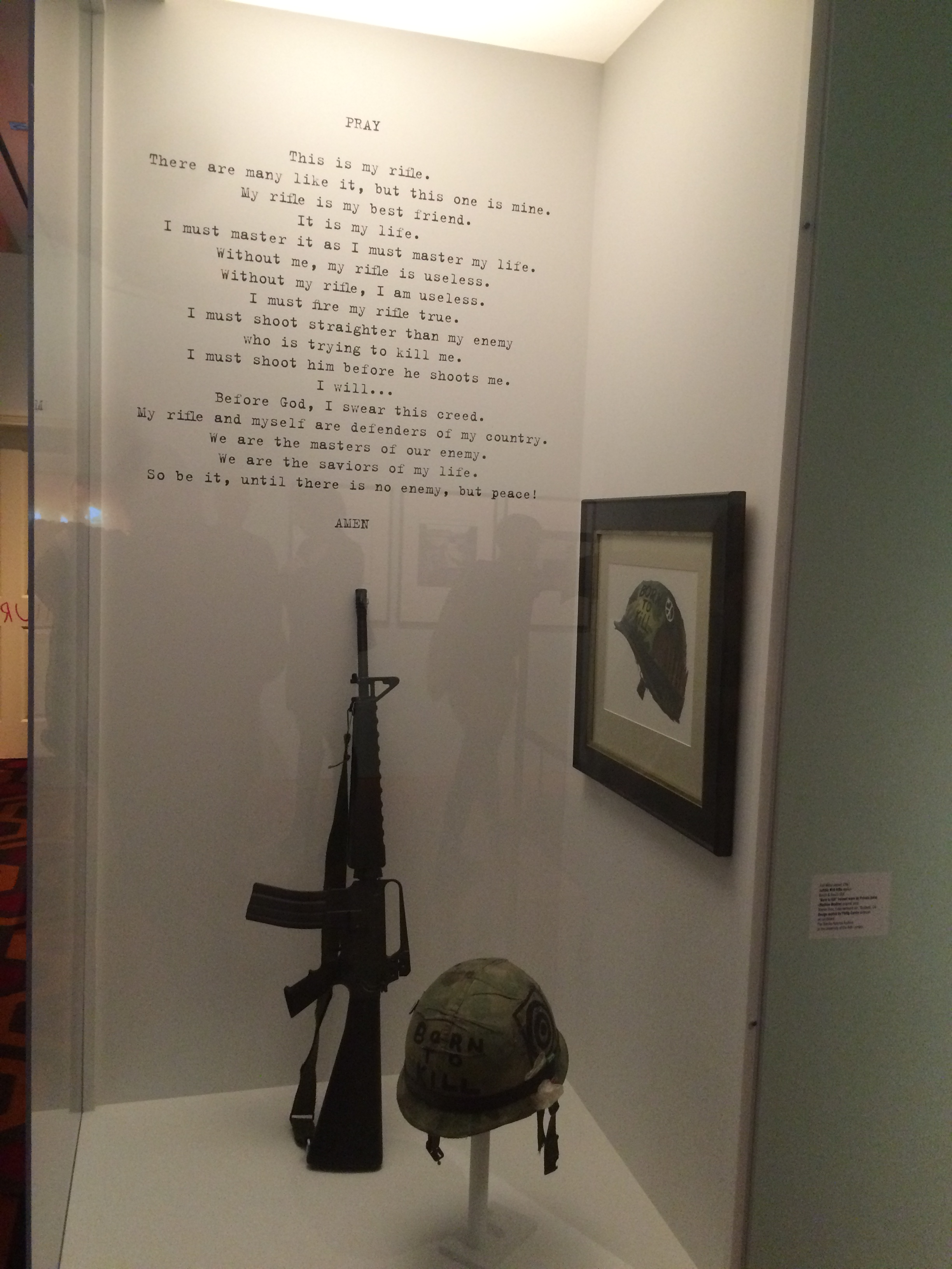 Rifle and helmet from the film Full Metal Jacket displayed at Stanley Kubrick: The Exhibit, TIFF, Canada. Part of the Rifleman's Creed is on the wall: “PRAY This is my rifle. There are many like it, but this one is mine. My rifle is my best friend. It is my life. I must master it as I must master my life. Without me, my rifle is useless. Without my rifle, I am useless. I must fire my rifle true. I must shoot straighter than the enemy who is trying to kill me. I must shoot him before he shoots me. I will... Before God I swear this creed. My rifle and I are the defenders of my country. We are the masters of our enemy. We are the saviors of my life. So be it, until there is no enemy, but peace! AMEN”